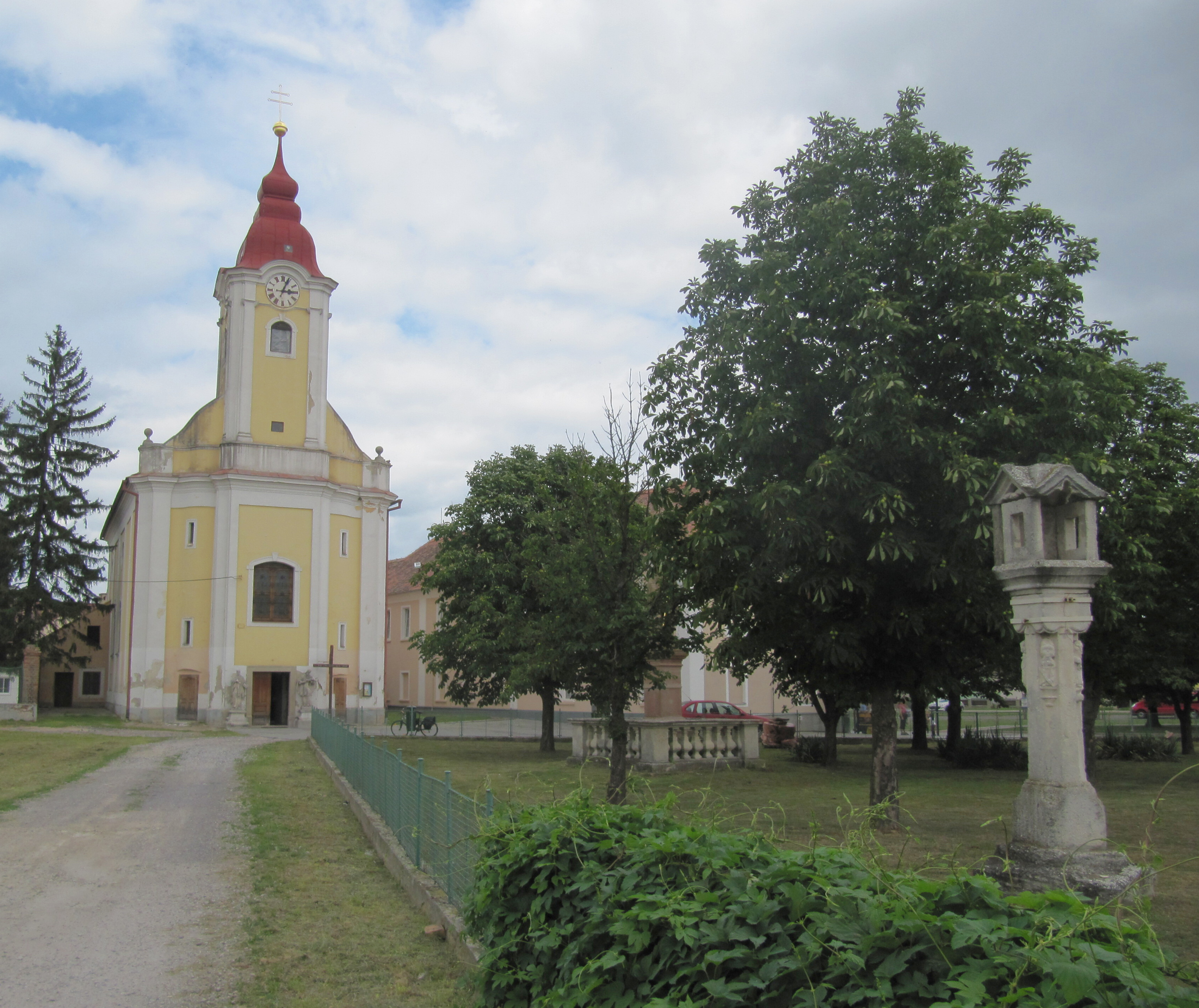 Hevlín in Znojmo District, Czech Republic. Church of the Assumption.